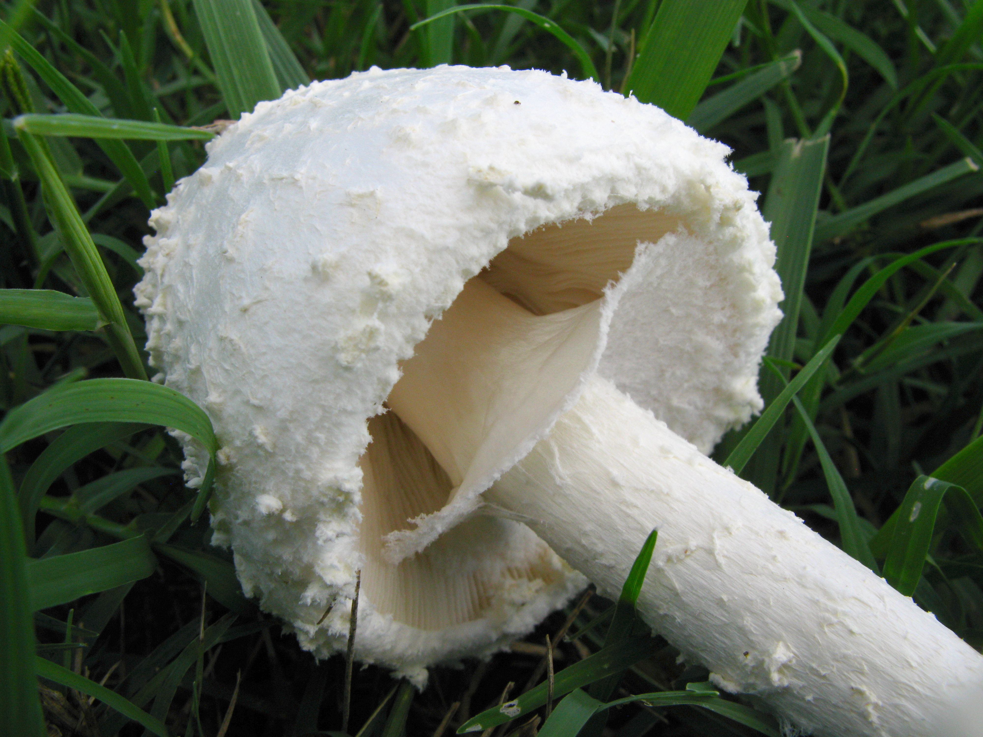 A fruit body of the mushroom Amanita thiersii Bas. Specimen found in Smyrna Air Base, Rutherford Co., Tennessee, USA.